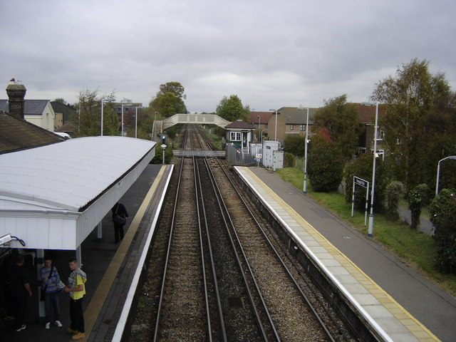 Hampden Park Station